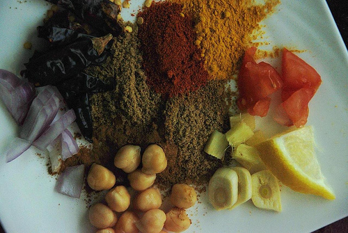 Photo of the ingredients that go into the preperation of Chole/Chana Masala